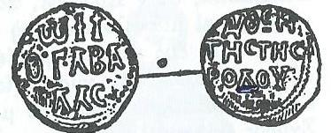 Coin of John Gabalas, lord of Rodes